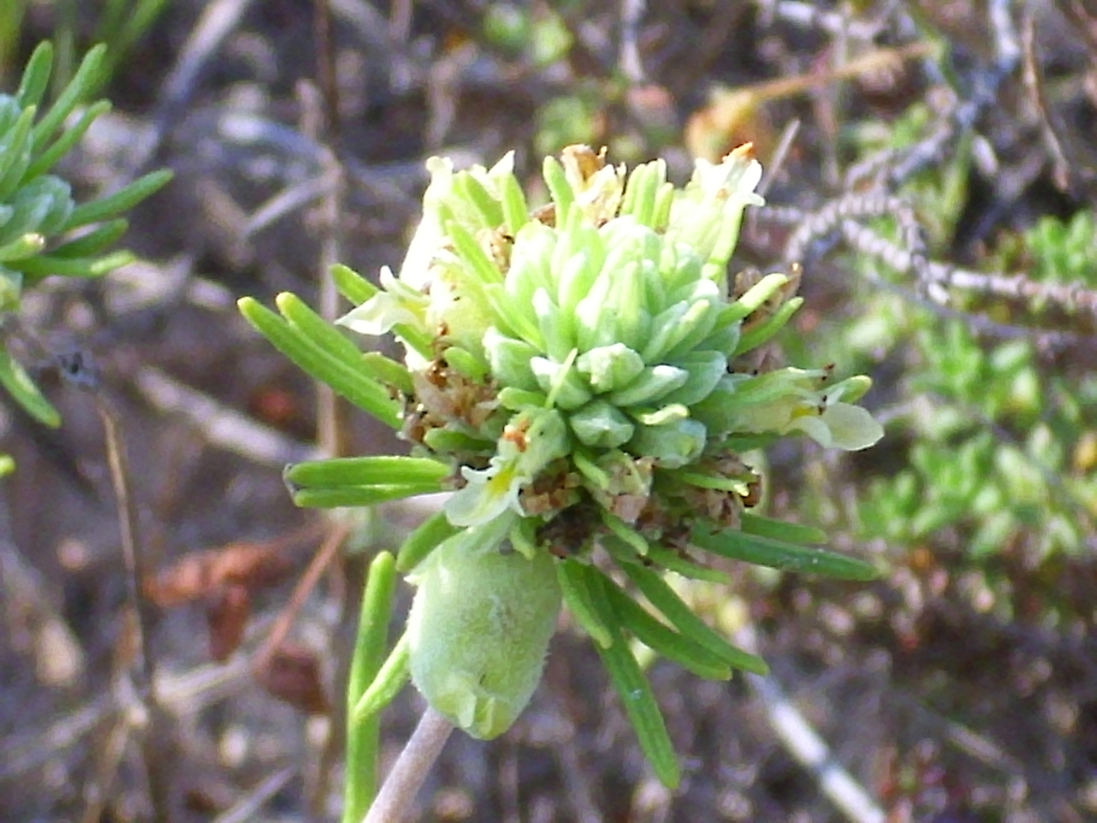 Teucrium capitatum close up, La Mata, Torrevieja, Alicante, Spain.